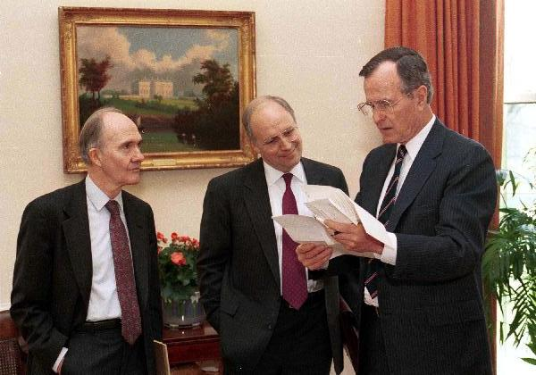 President George H. W. Bush examines papers with Sec. Dick Cheney and Gen. Brent Scowcroft in the Oval Office of the White House.